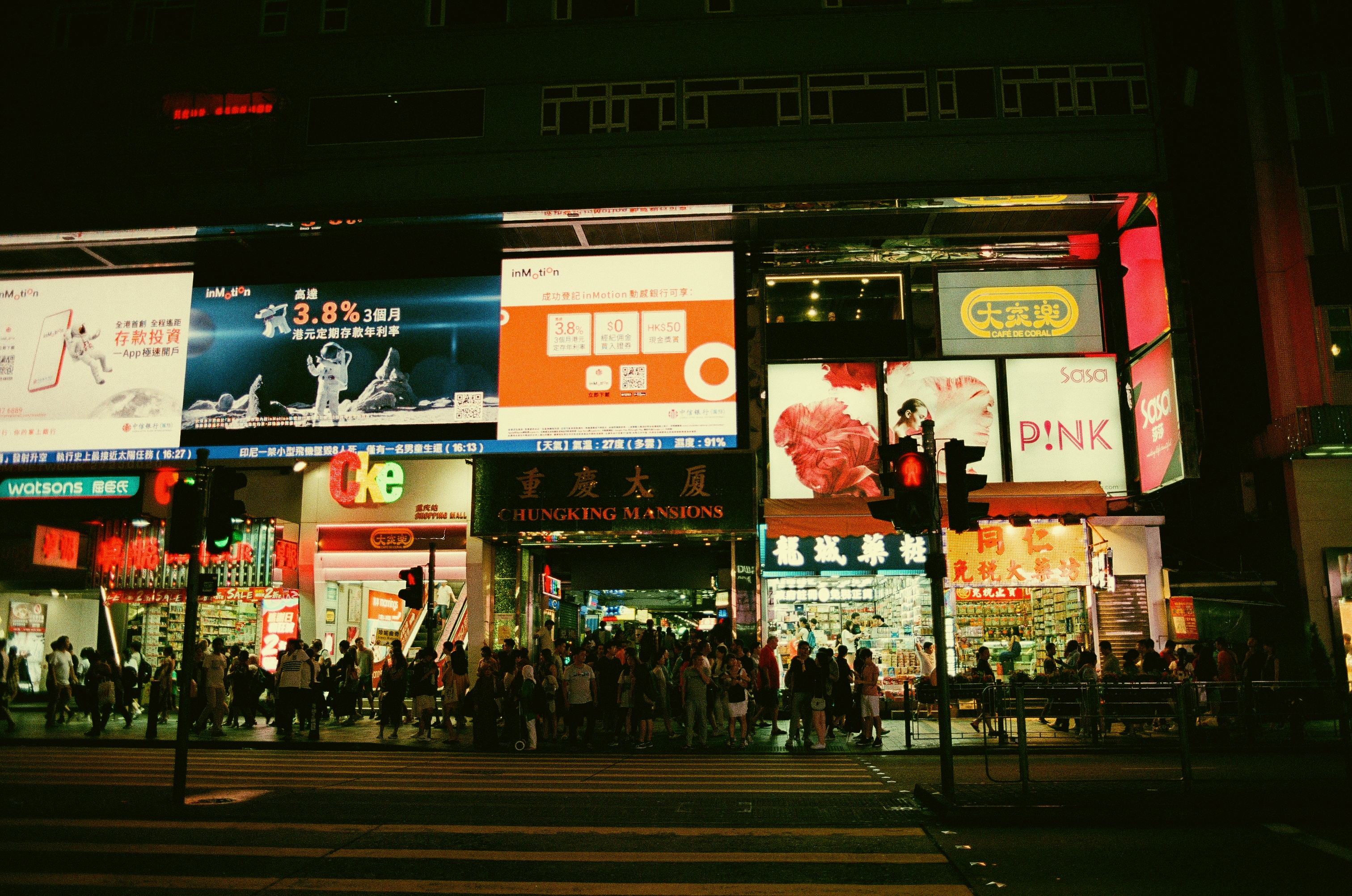 Nightscape of Chung King Mansions on Nathan Road, Kowloon, Hong Kong, China